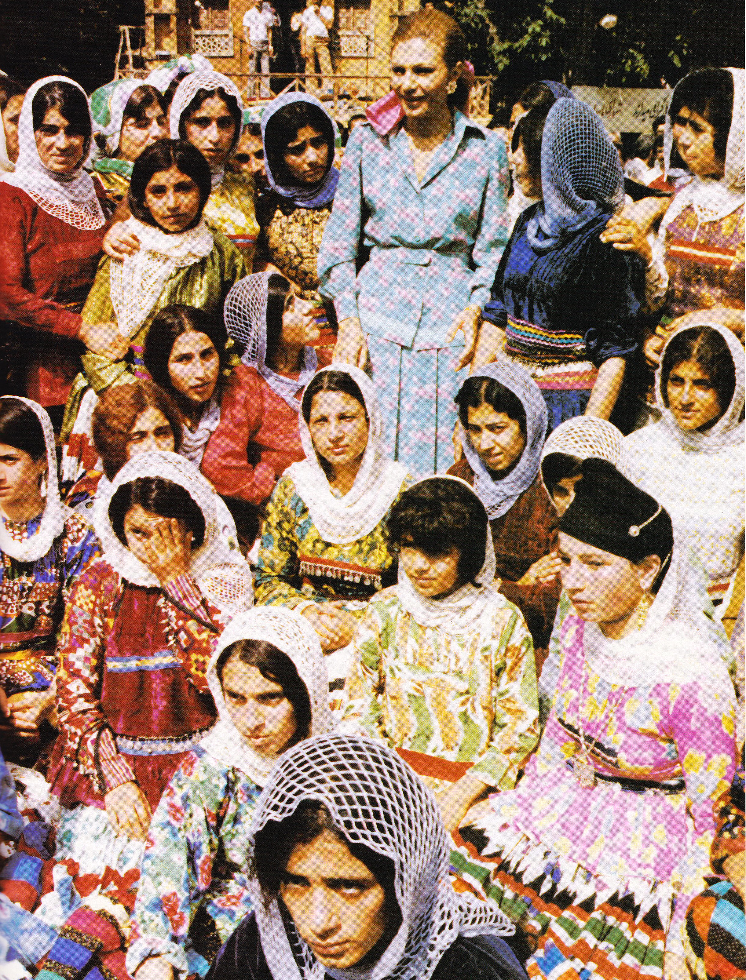 Shahbanu Farah Pahlavi visits Gilan, Iran